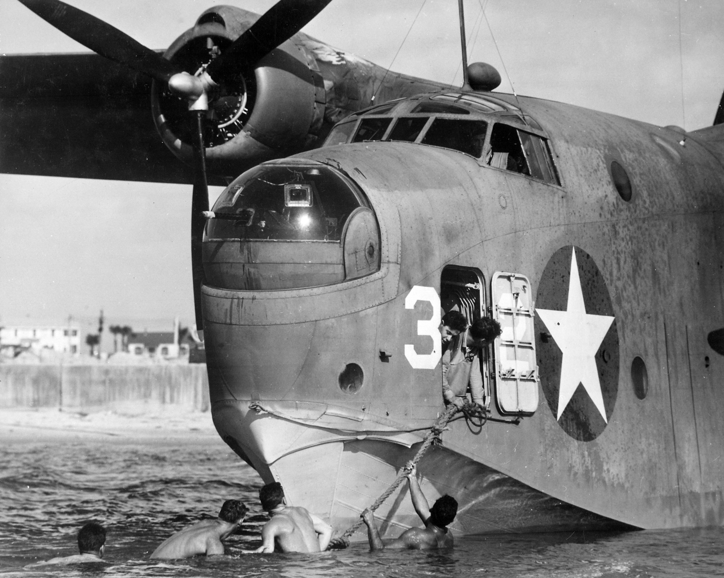 The beaching crew clings to bow line of a Martin PBM Mariner patrol bomber seaplane at Naval Air Station Banana River, Florida (USA), ca. March 1943.